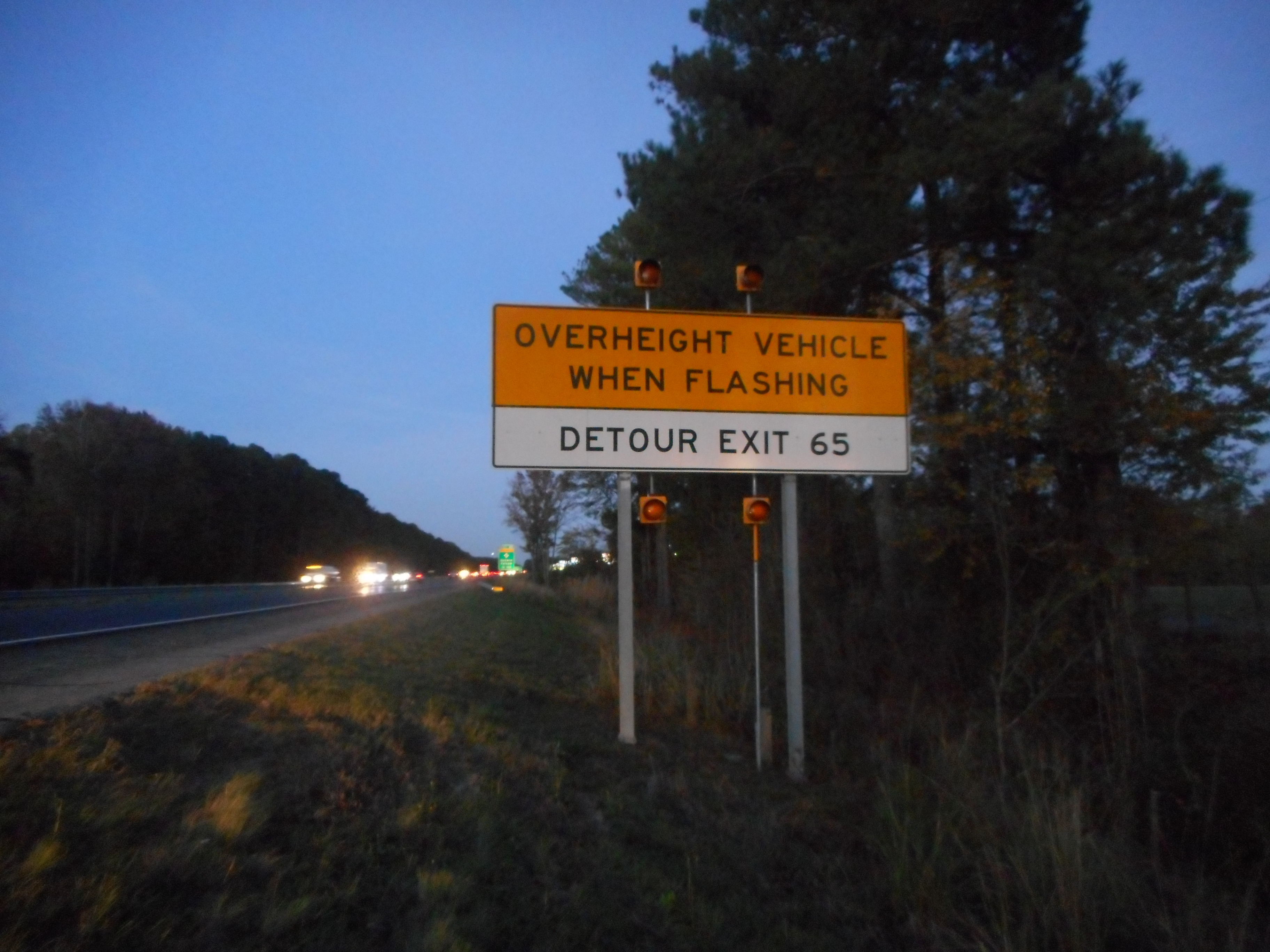 Images related to the overheight vehicle warning zone along Interstate 95 between Godwin and Dunn, North Carolina. Bridges over I-95 are considered to be low for most modern truck drivers between Exit 65 and after Exit 75, so before reaching Exit 65 truck drivers are ordered to move to the right lane, to prepare for a scan to see if their trucks (or buses) are too high for the bridges. If they are, the yellow lights around the sign will start flashing and those drivers will have to take a detour at the exit for North Carolina Highway 82. Fortunately, all interchanges between these points are diamond interchanges, so truckers will have no problem getting back on the Interstate.